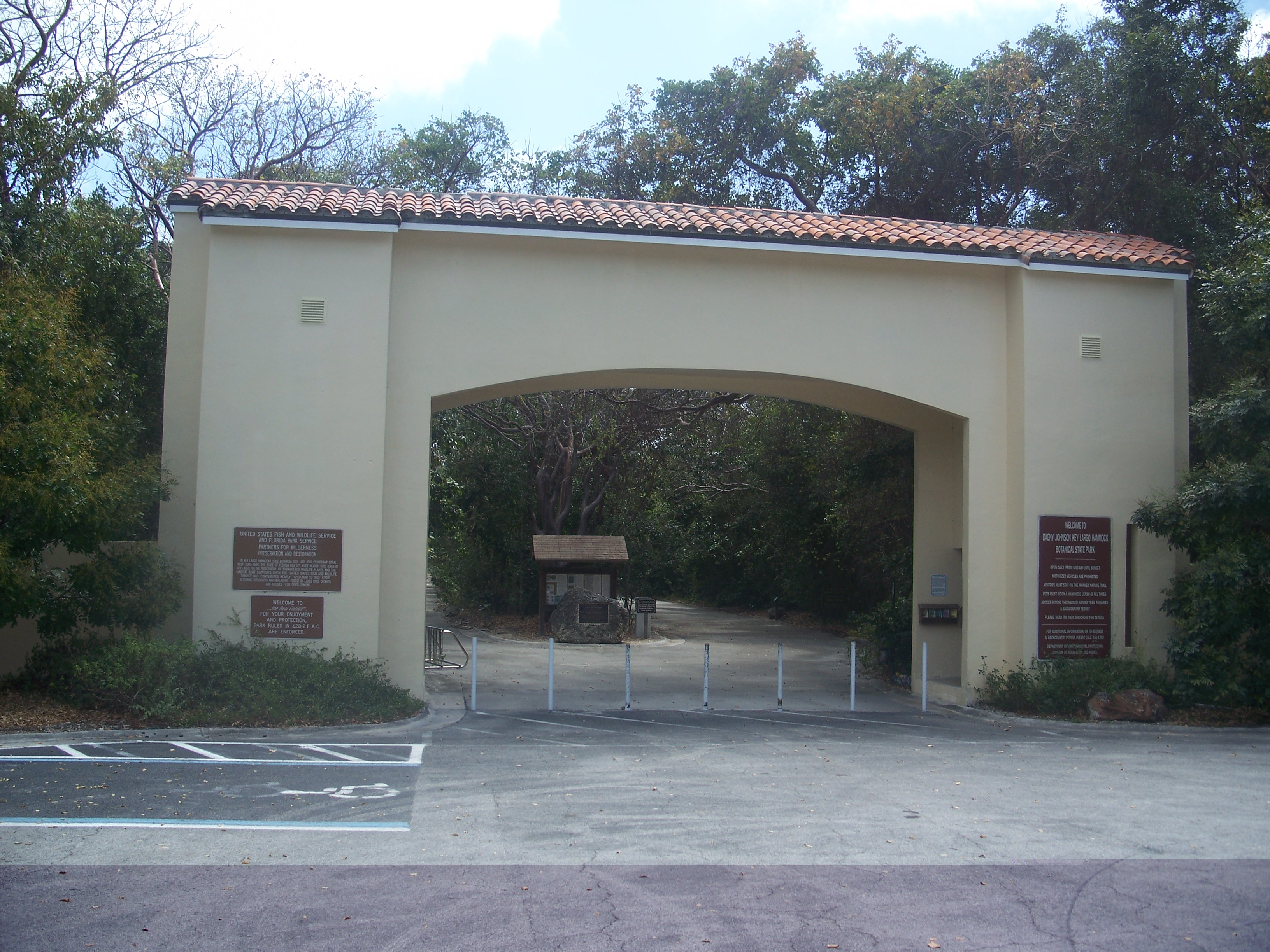 Dagny Johnson Key Largo Hammock Botanical State Park